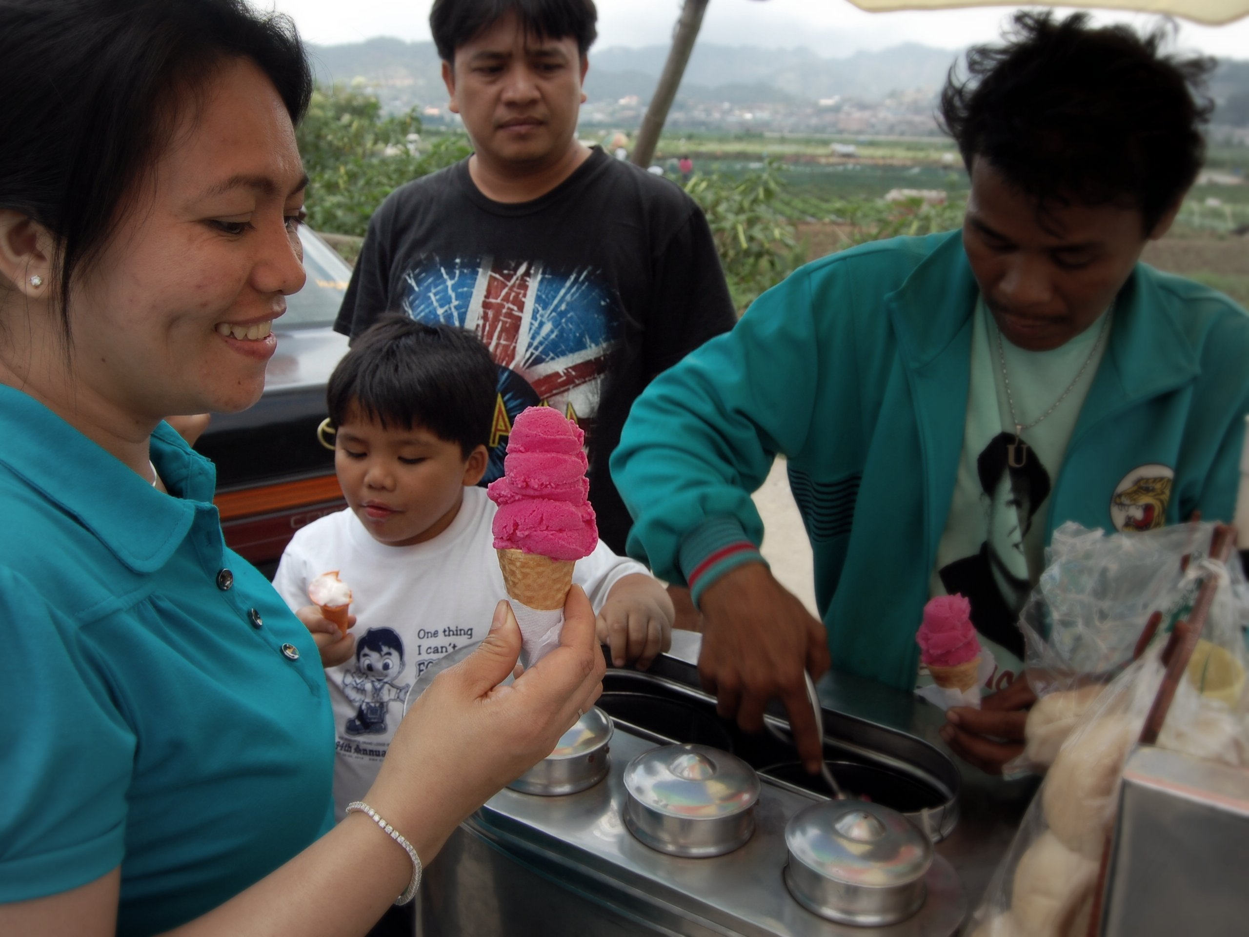 A woman purchasing strawberry sorbetes from a street merchant in La Trinidad, Benguet, Philippines on April 28, 2010